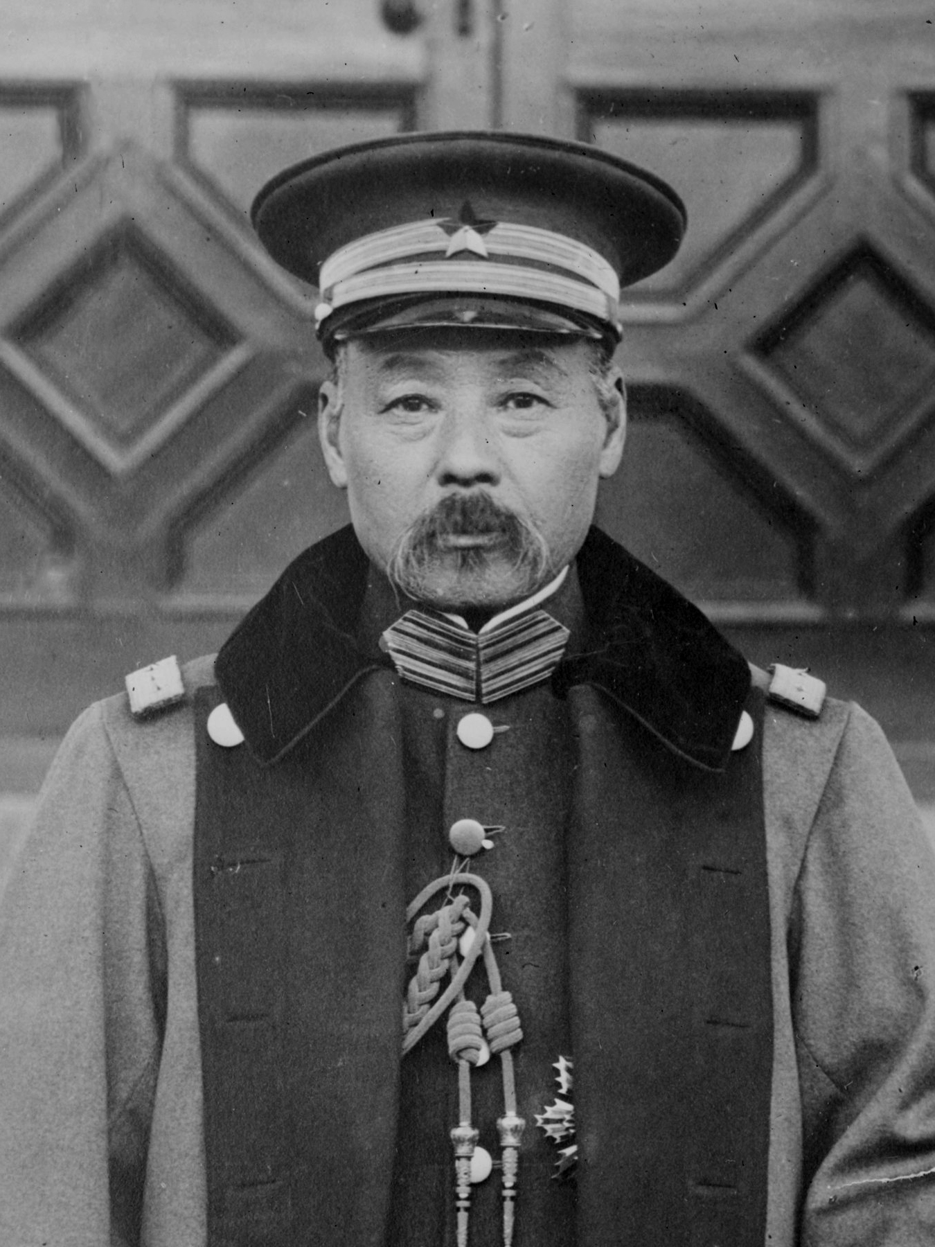 "Feng-Kwo-Chang, President of China China, a republic since February 12, 1912, declared war on August 14, 1917." (caption)